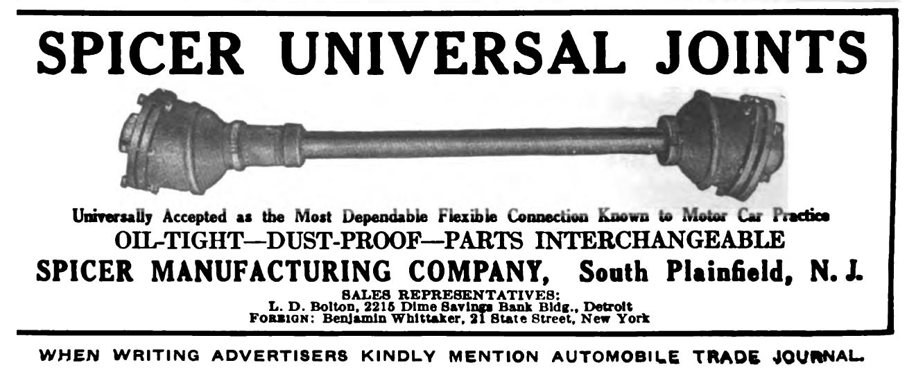 Spicer Manufacturing Company advertisement for universal joints in Automobile Trade Journal, 1916, volume 20, page 362.